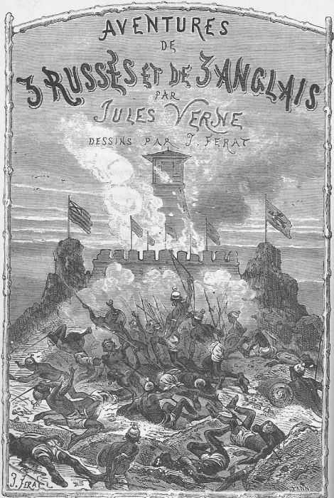 An illustration from Jules Verne's novel "The Adventures of Three Englishmen and Three Russians in South Africa" (1870) drawn by Jules Férat.